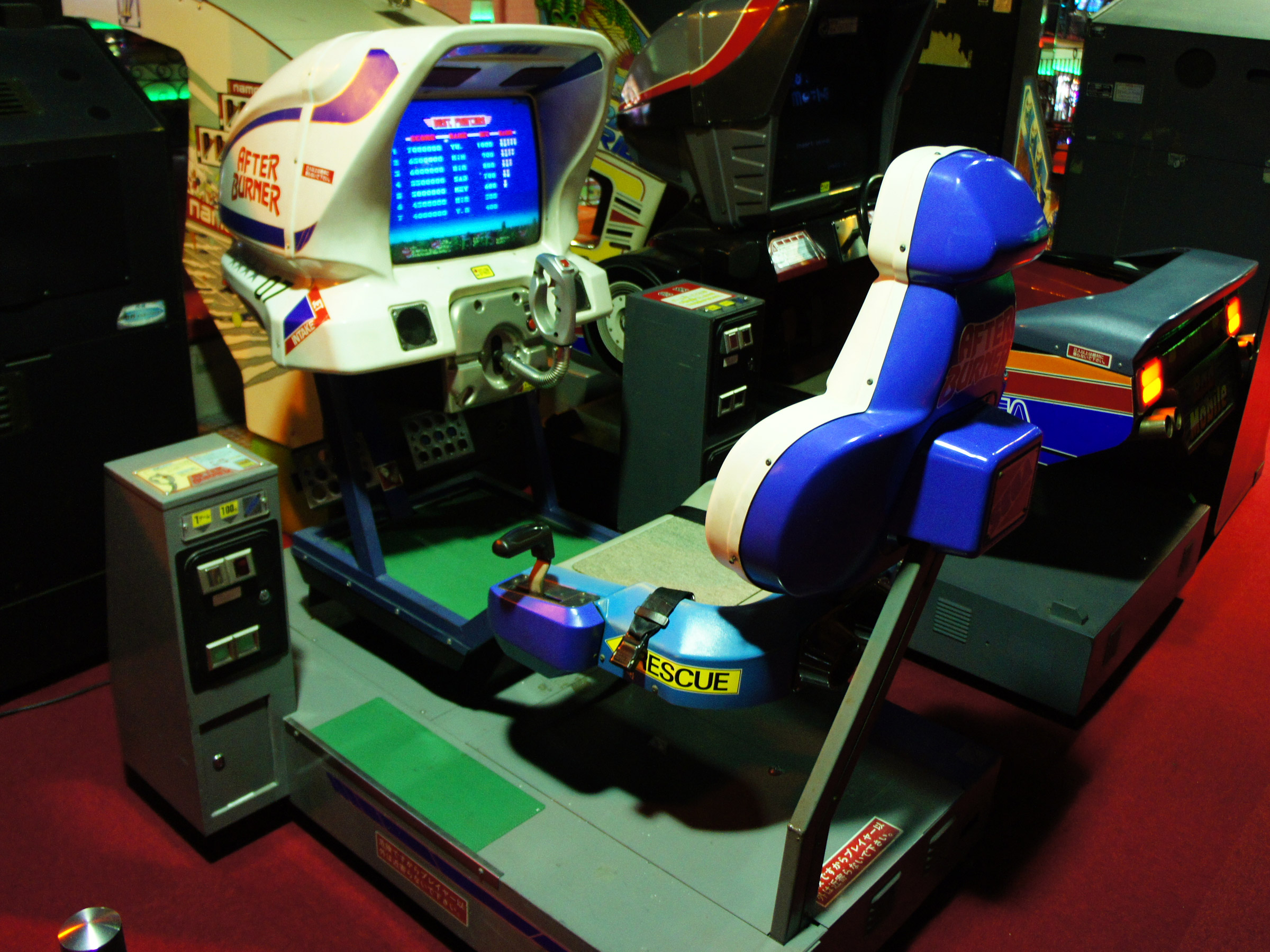 SEGA's After Burner. Single cradle.